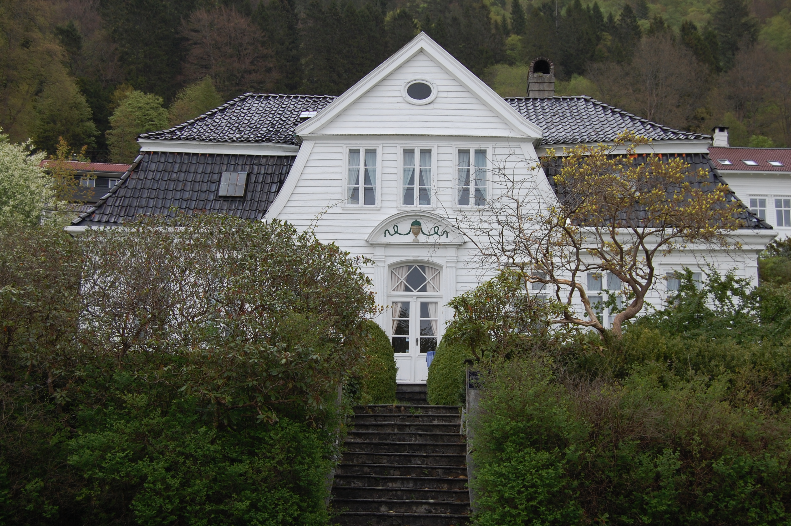 Brødretomten, Bergen, Norway